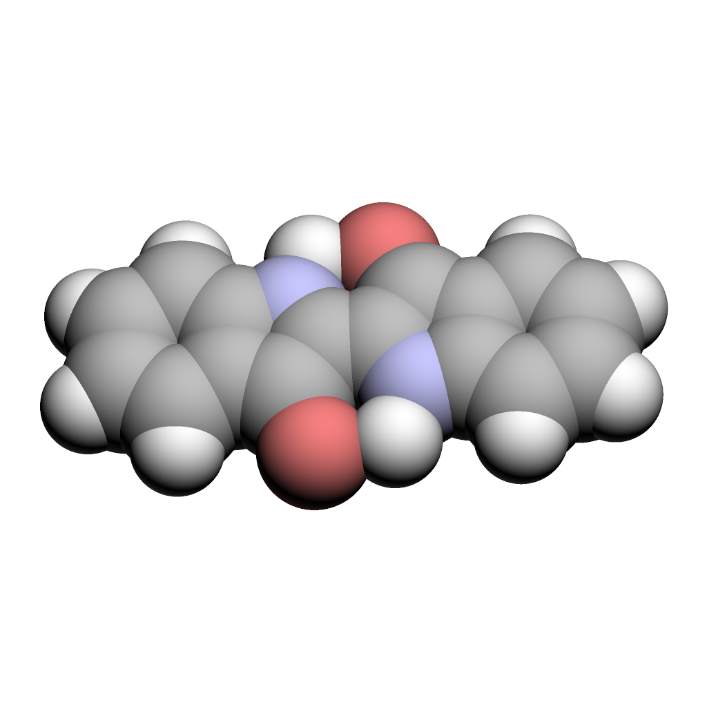 Molecular spacefill of Indigo